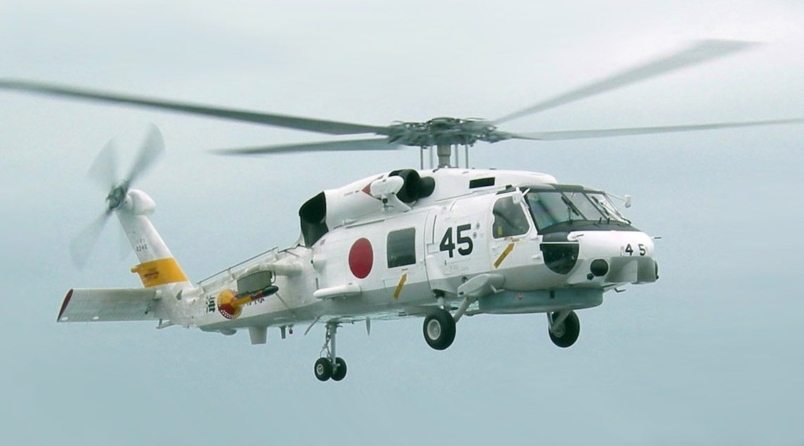 070317-N-6729W-444 PHILIPPINE SEA (March 17, 2007) - An SH-60J Seahawk assigned to the Japan Maritime Self Defense Force (JMSDF) ship JS Haruna (DDH 141) makes a landing aboard the guided missile destroyer USS Russell (DDG 59). Russell is part of the USS Ronald Reagan Carrier Strike Group and is participating in a three-day passing exercise with JMSDF ships. U.S. Navy photo by Gas Turbine System Technician (Mechanical) Fireman Derek Webster (RELEASED)